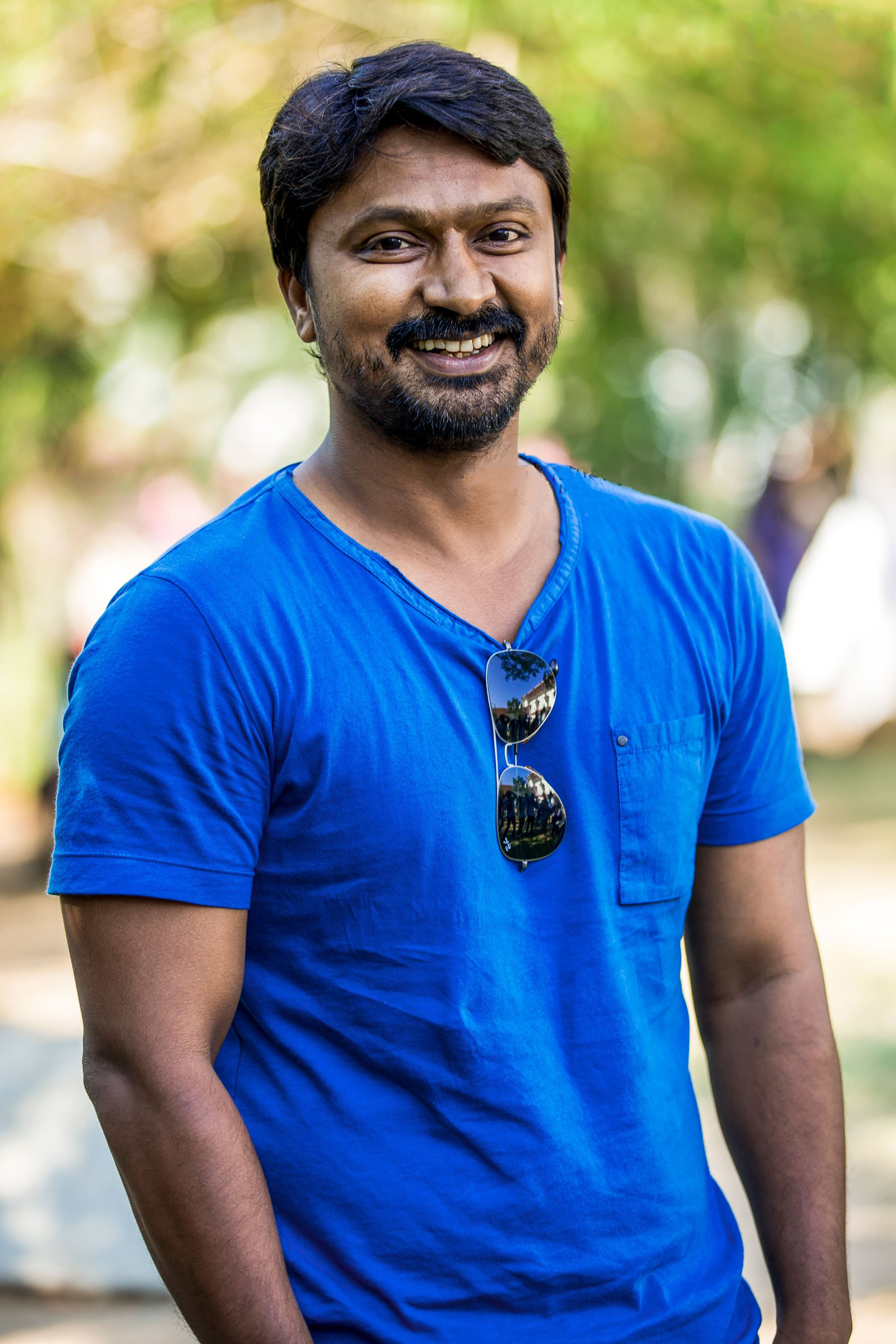 Kreshna at Vizhithiru Press Meet